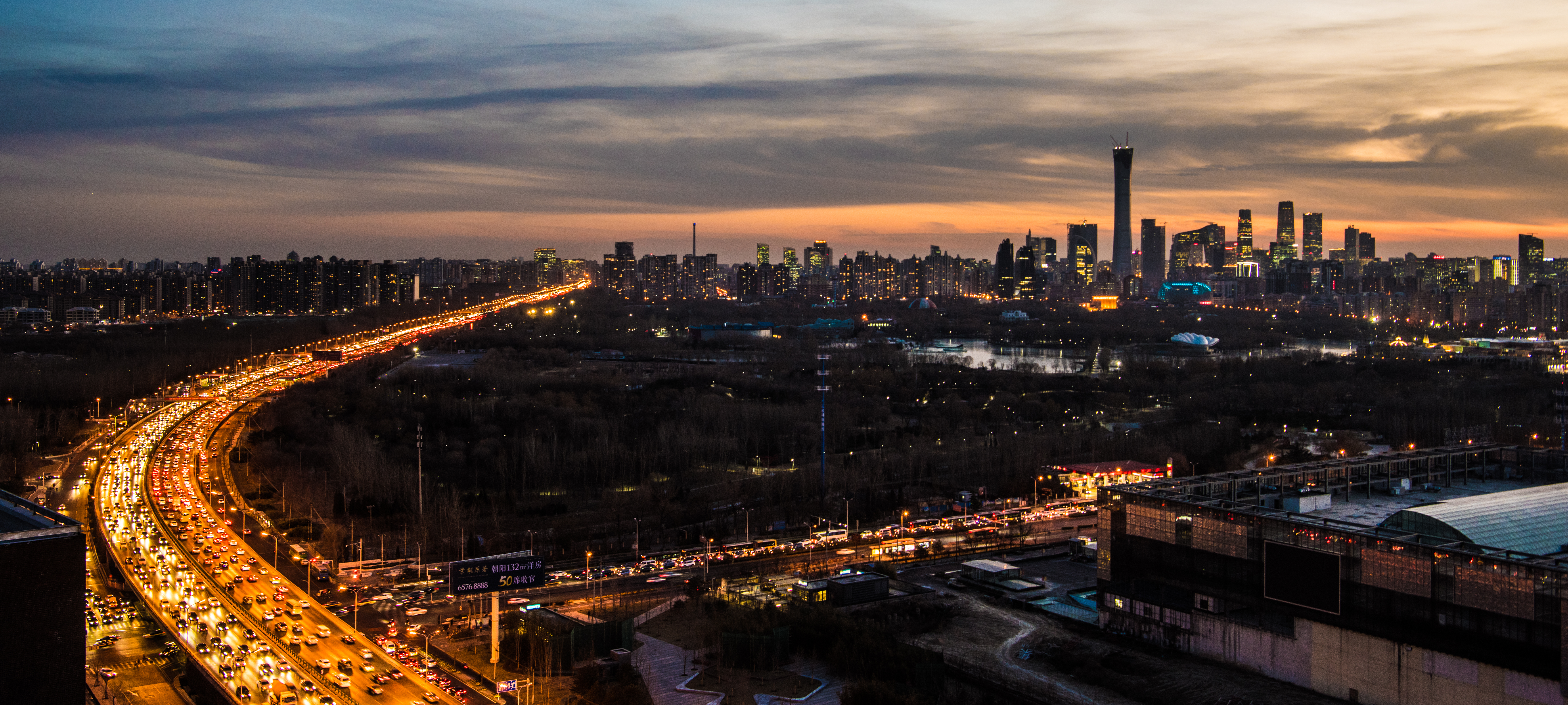 Beijing skyline from northeast 4th ring road of Beijing CBD, Chaoyang Park, and east 4th ring road at dusk